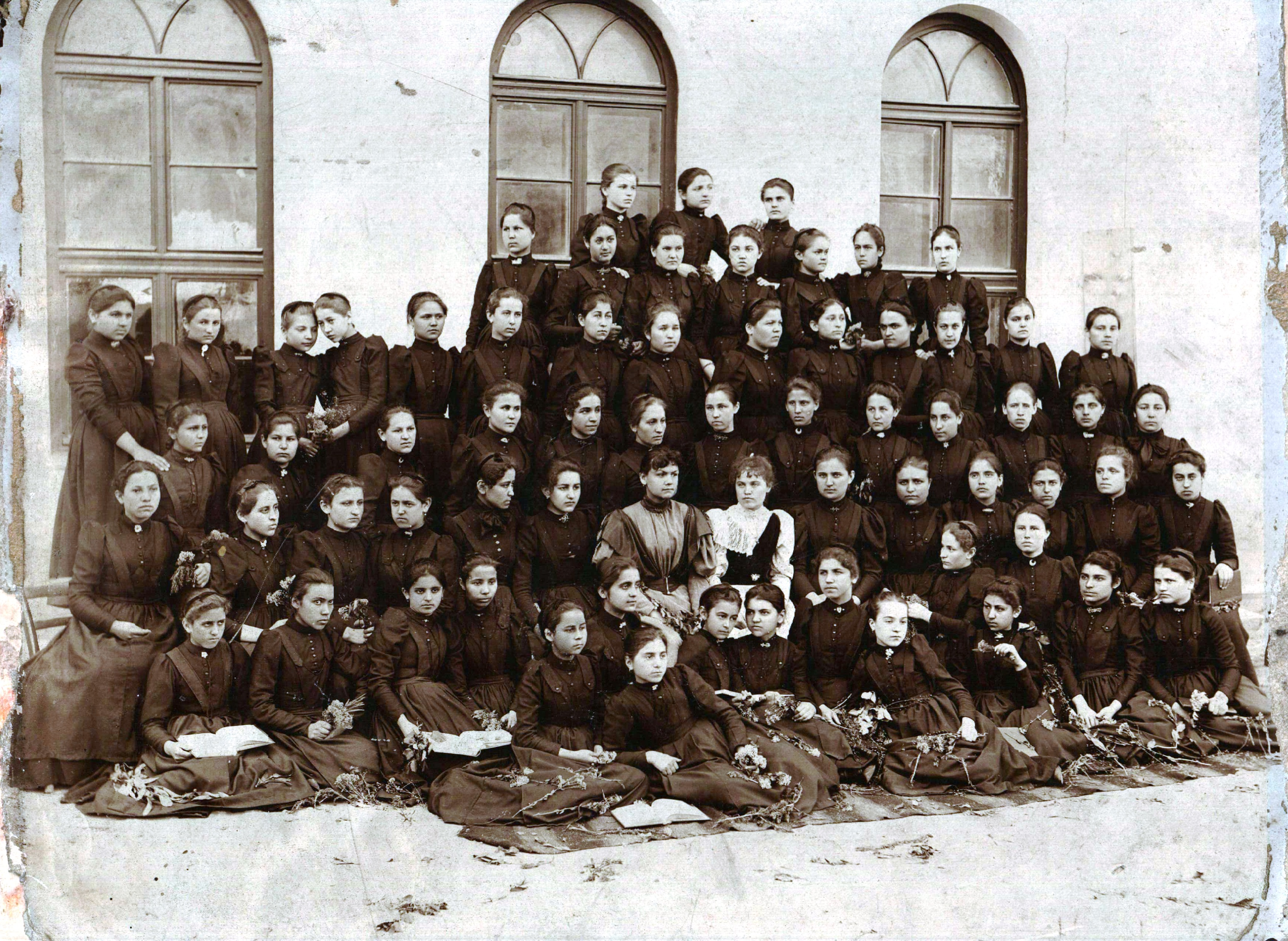 Zlatina Nedeva with classmates in Tarnovo Girls' High School.